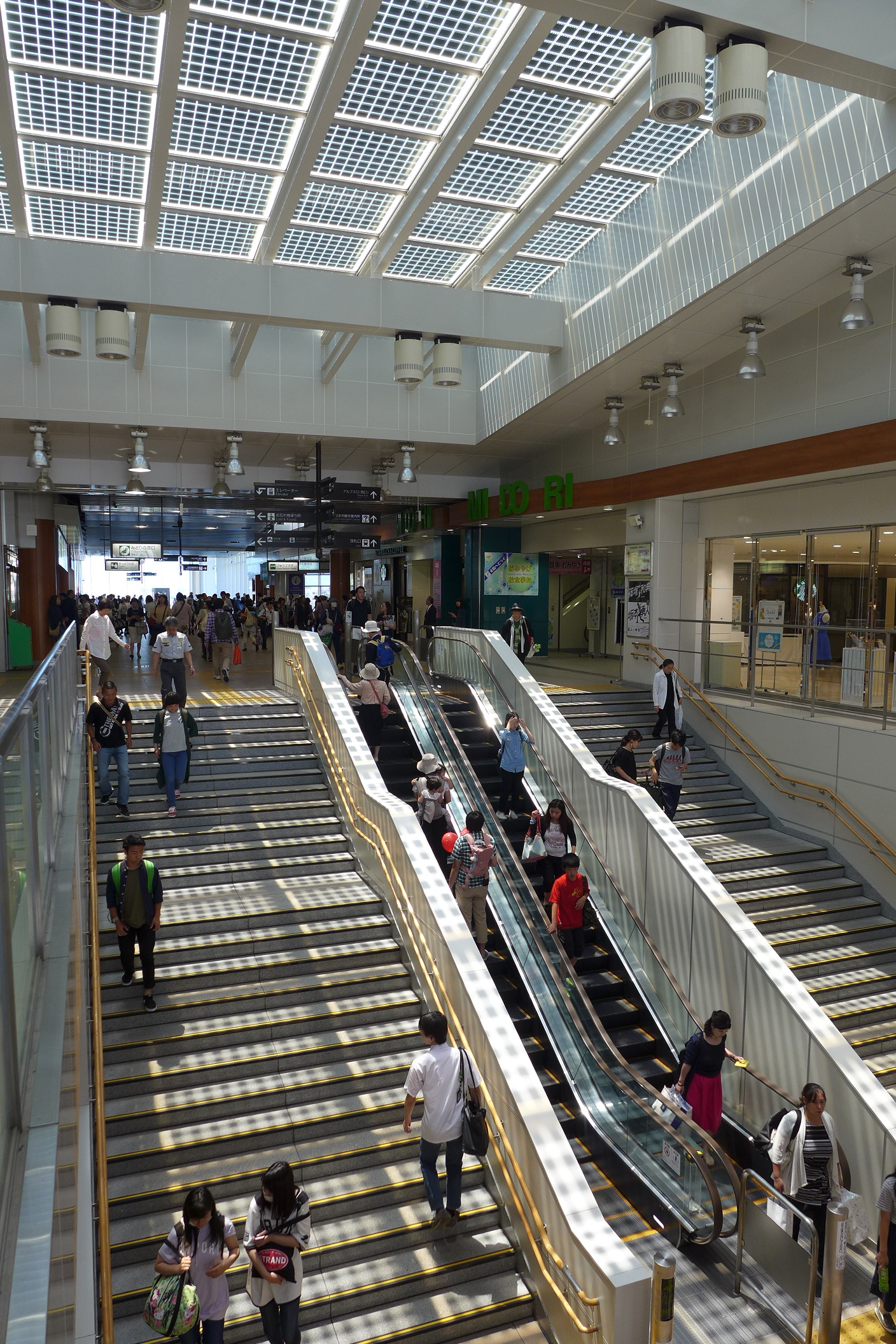 The entrance space and stairs inside Matsumoto Station in Nagano Prefecture, Japan